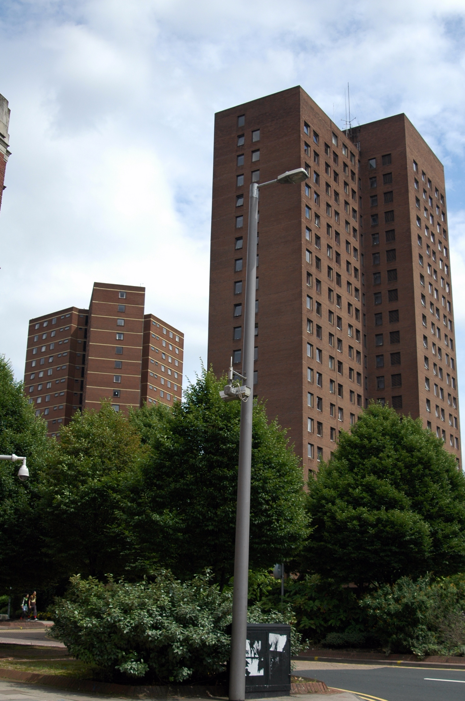 These are two of three large 1970s student accommodation blocks on the Aston University premises. These are to be demolished.